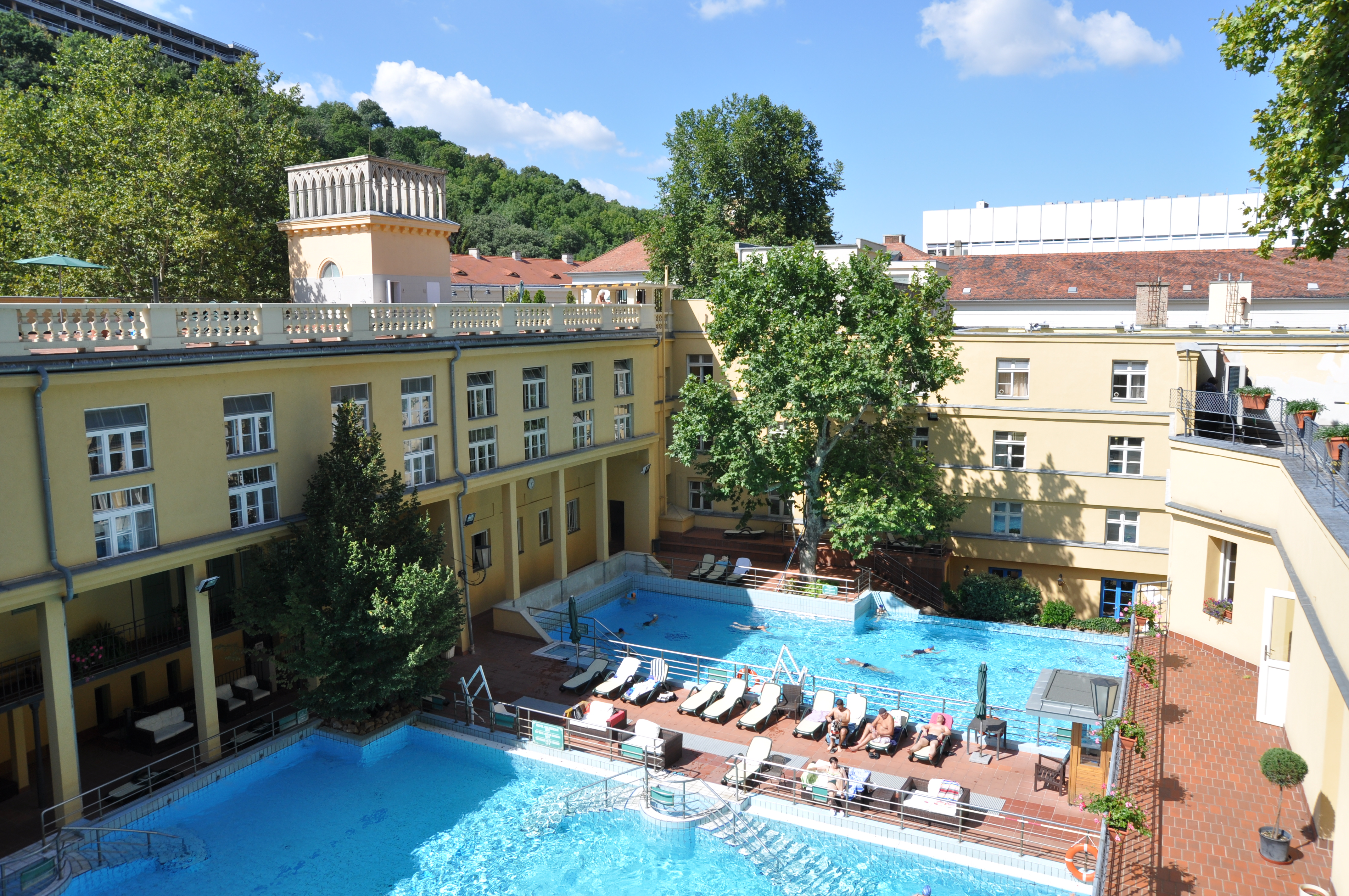 Budapest, Lukács fürdő, úszómedencék